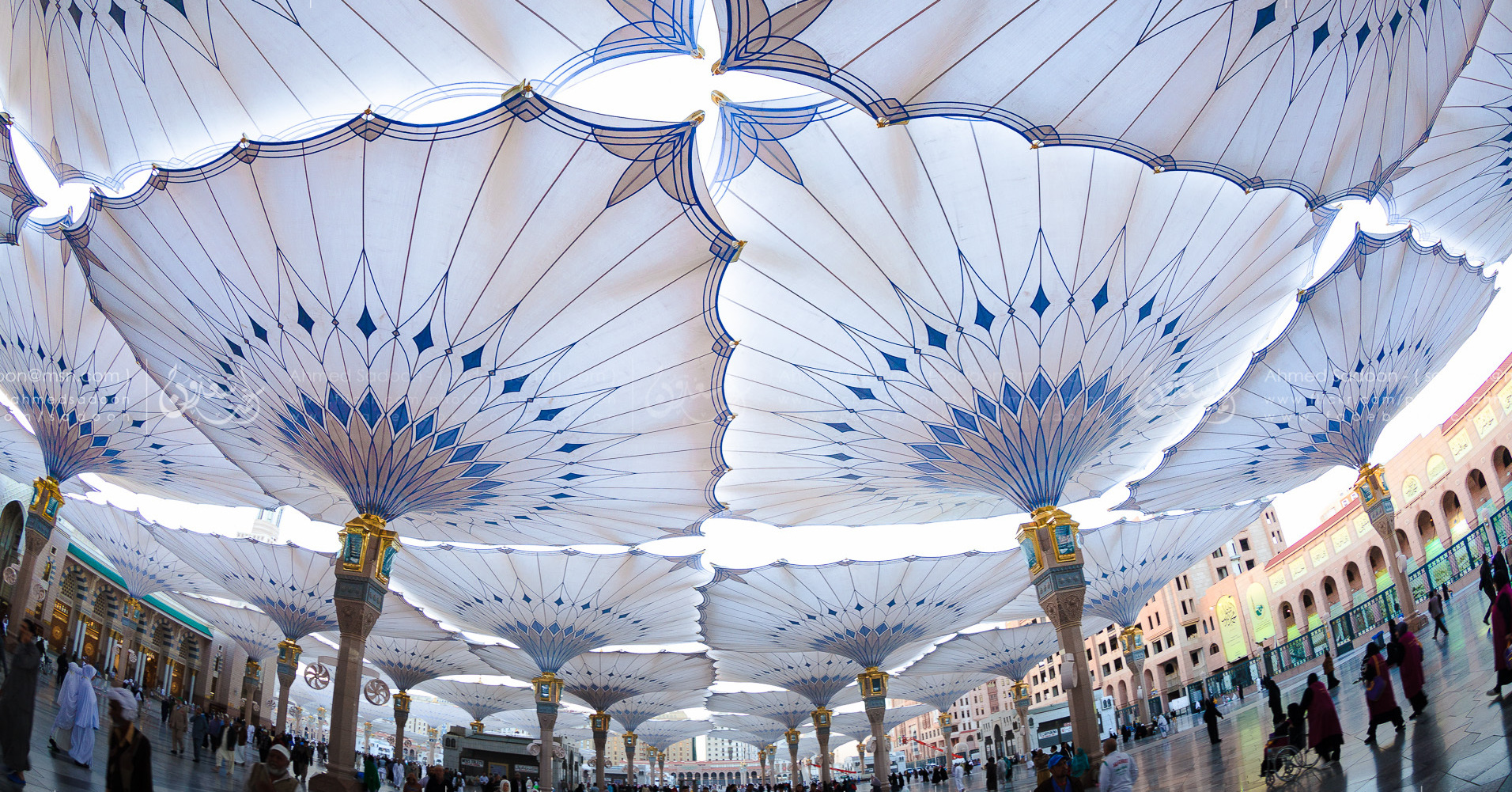 High tech umbrellas installed in the veranda of the Prophet's mosque